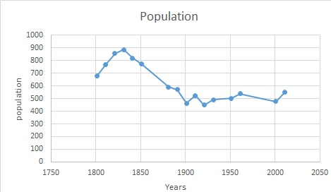 chart for population change